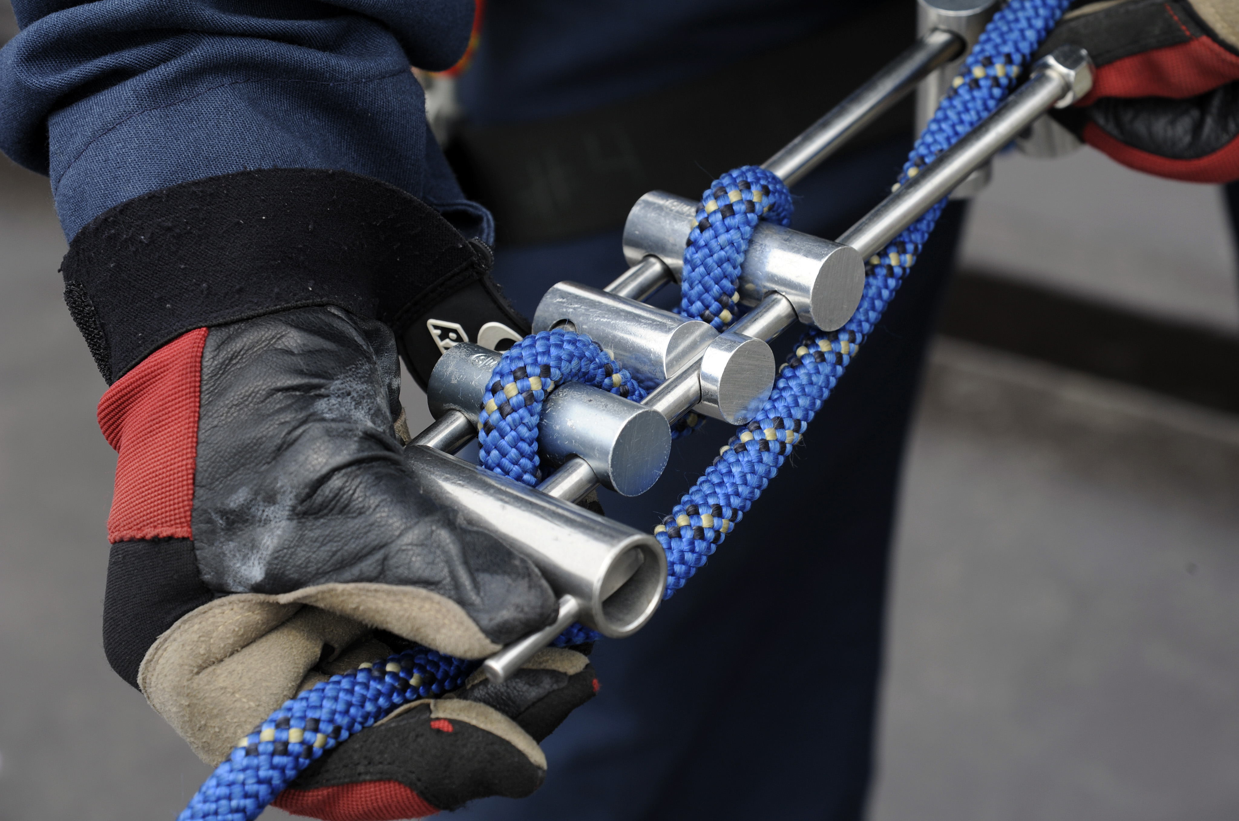 Takuya Kanto, 35th Civil Engineer Squadron driver operator, secures a rope onto a brake bar during rappel training at the Misawa water tower at Misawa Air Base, Japan, June 8, 2012. The brake bar is used to control the friction and tension of the rope as the individual rappels to the ground.